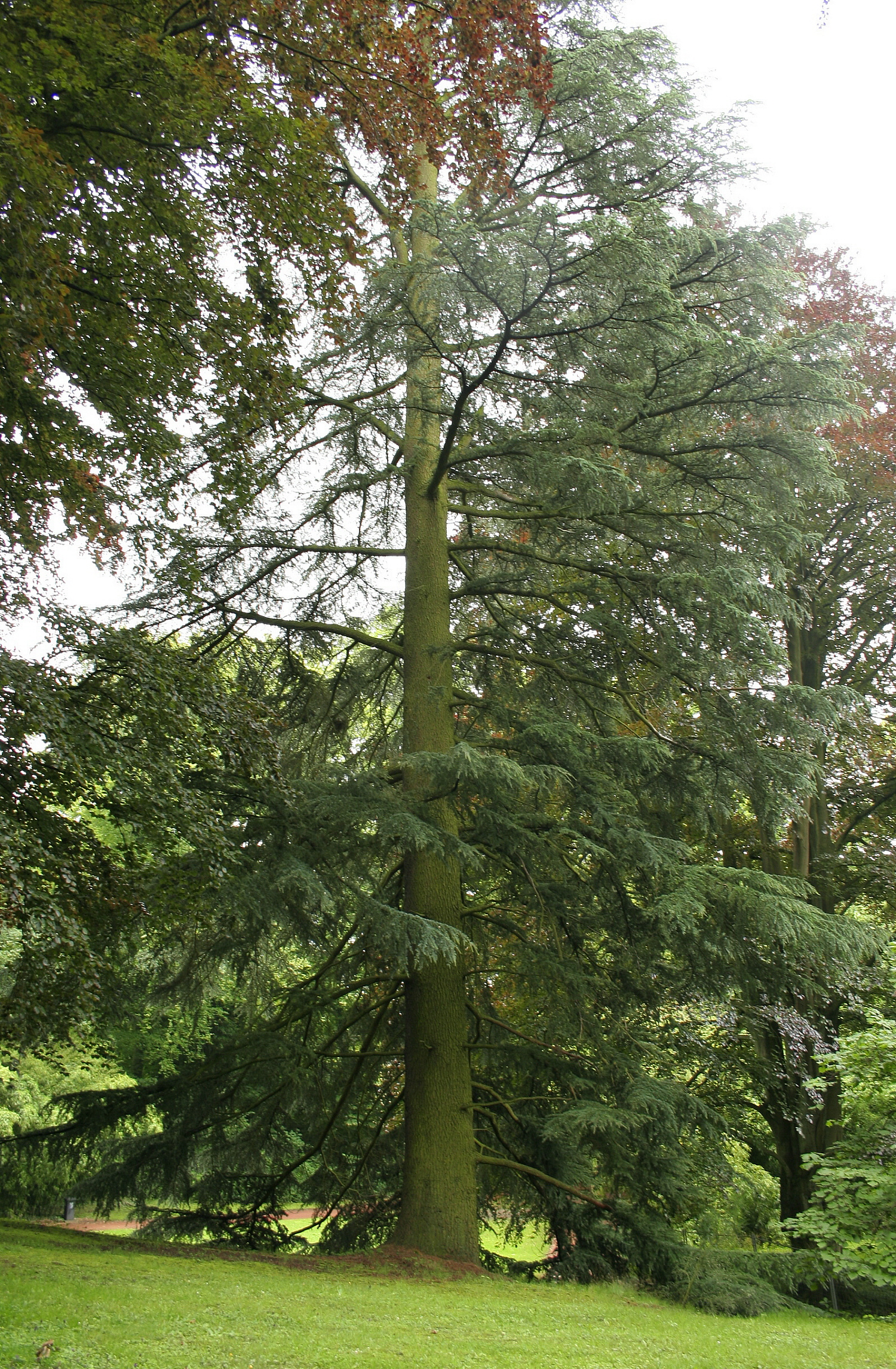 Deodar Cedar